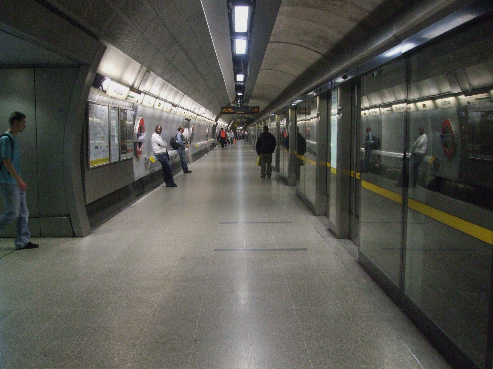 Waterloo tube station Jubilee line eastbound platform looking west. Note platform-edge doors.